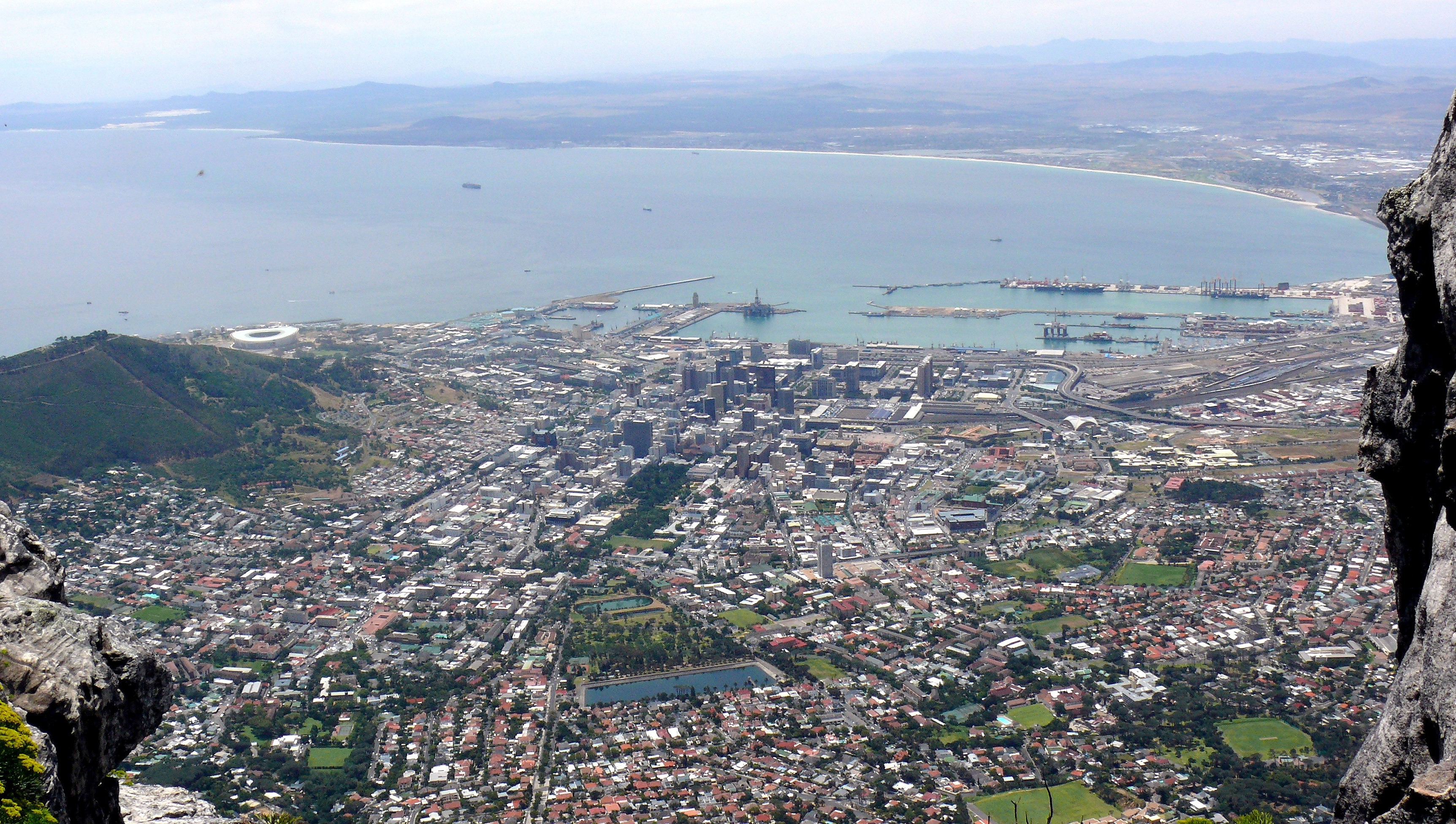 Table Bay and The City Bowl from the summit of Table Mountain in Cape Town, South Africa.